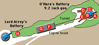 Diagram of O'Hara's Battery and Lord Airey's Battery in Gibraltar.